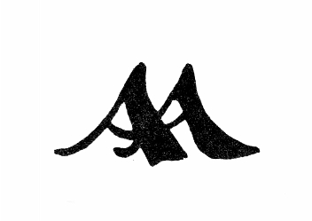 Scan aus Classified Signaturs of Artists This signature is believed to be ineligible for copyright and therefore in the public domain because it falls below the required level of originality for copyright protection both in the United States and in the source country (if different). In this case, the source country (e.g. the country of nationality of the signatory) is believed to be Netherlands. Note that this tag cannot be used on all signatures, as not all signatures are copyright-free. See Commons:When to use the PD-signature tag for an explanation of when the tag may be used.